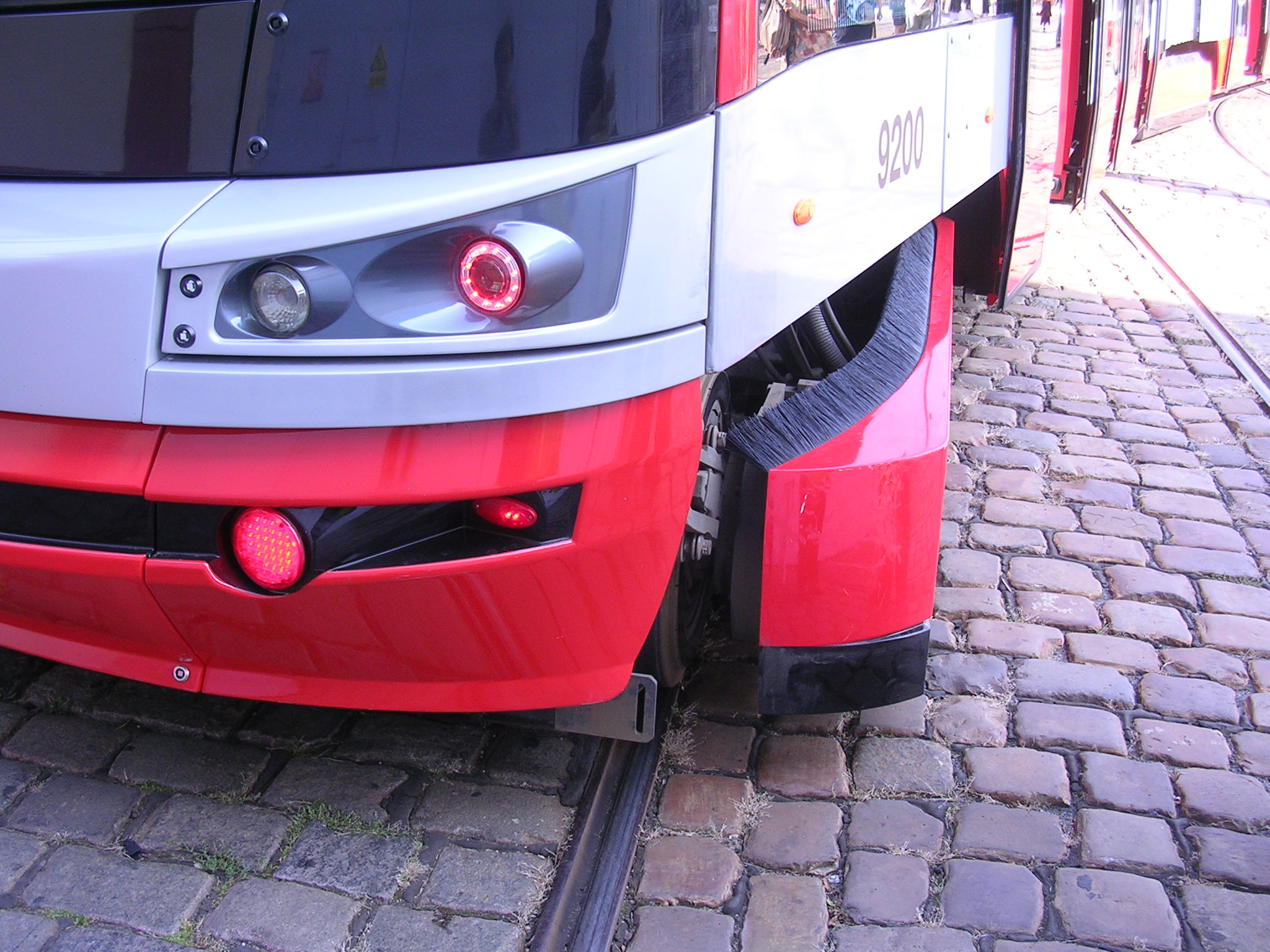 Střešovice, Prague, the Czech Republic. Open Doors Day in Střešovice tram depot and transport museum. Tram Škoda 15T.